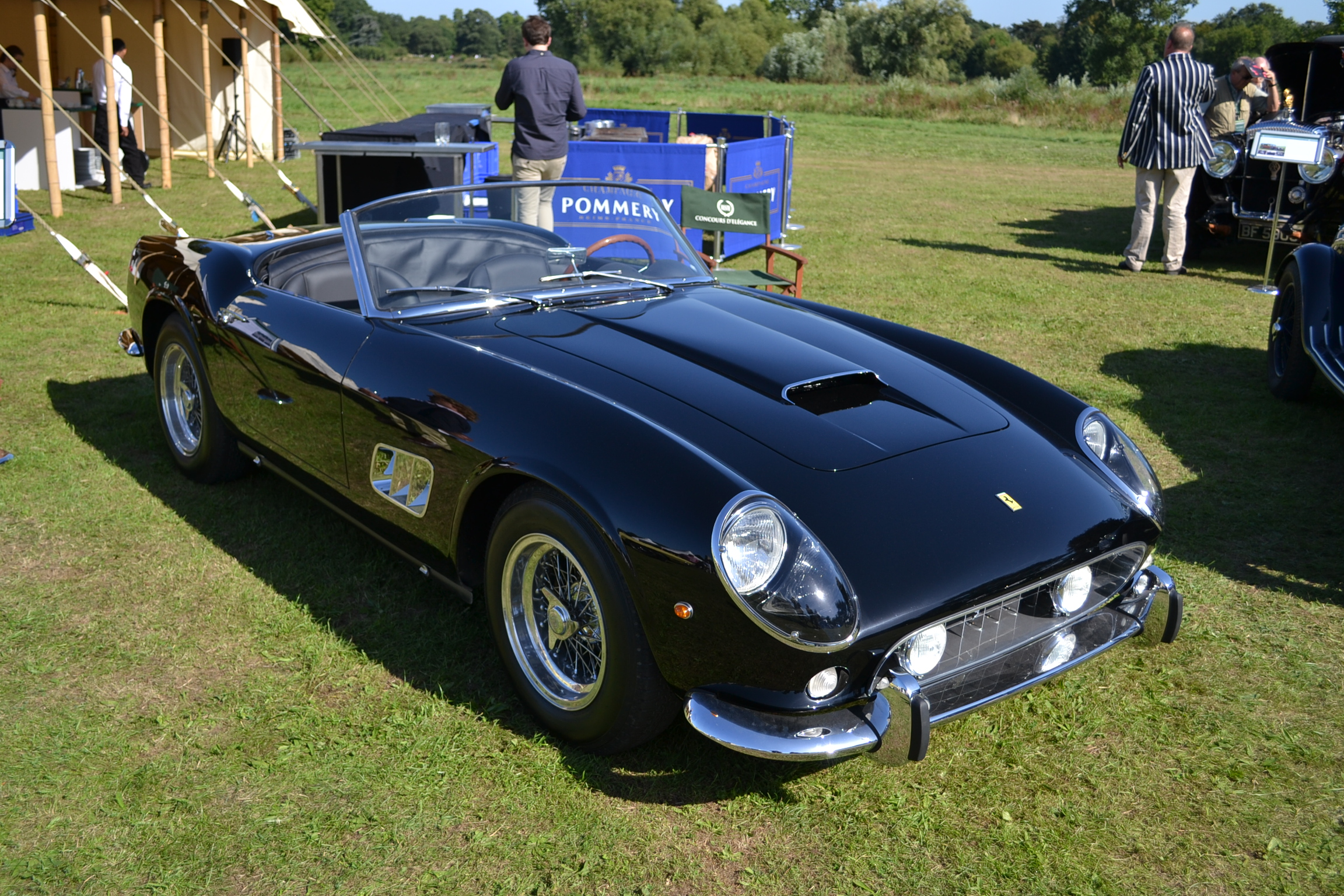 Salon Privé London 2012. This is a 1961 250 GT SWB California restored by Joe Macari.[1][2] It has since had the license plate "582 YUB" and when on display, been presented as chassis #2377.